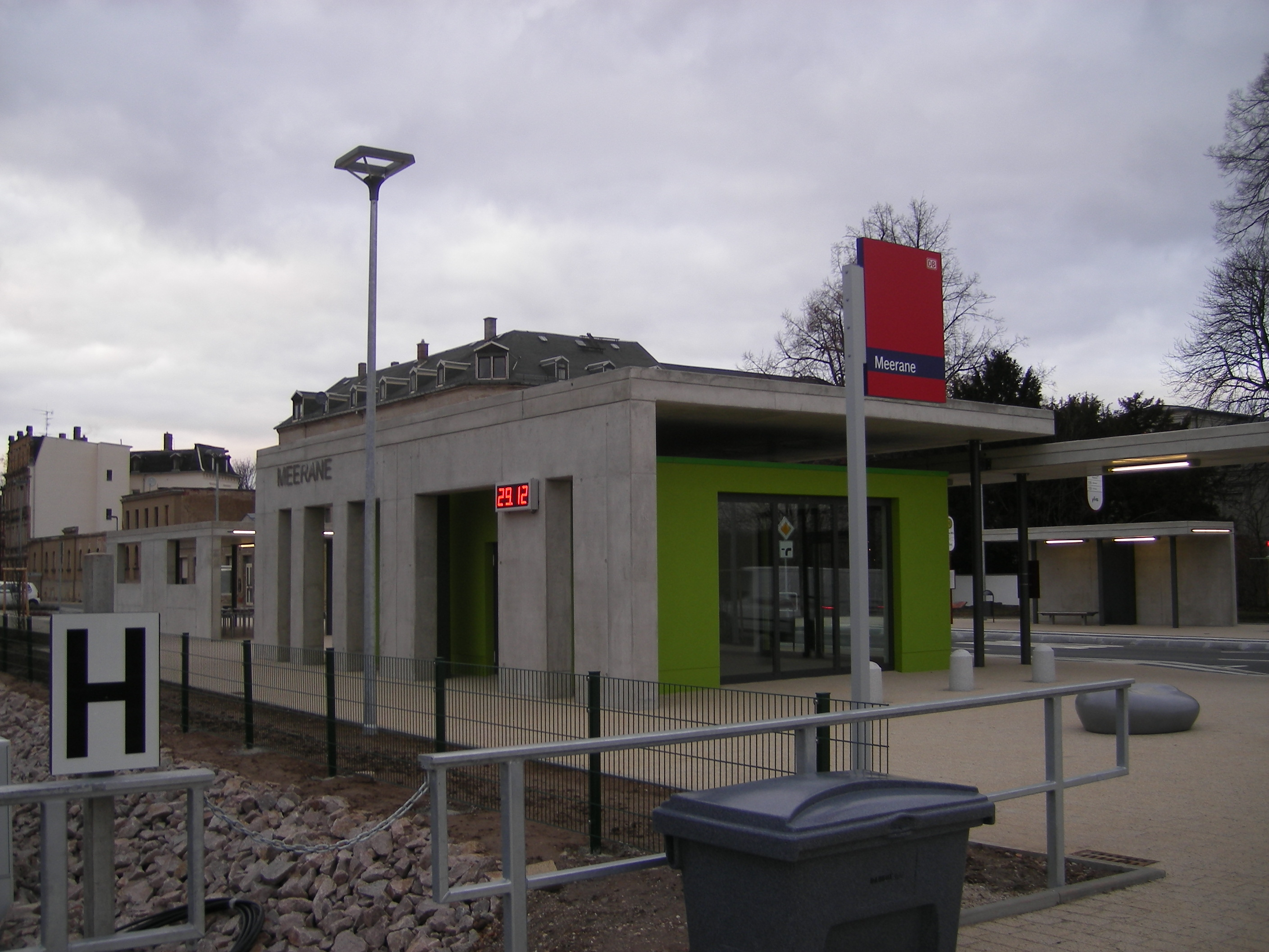 Train station in Meerane near Zwickau/Saxony